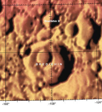 Colour-coded Lac 51 from USGS Digital Atlas